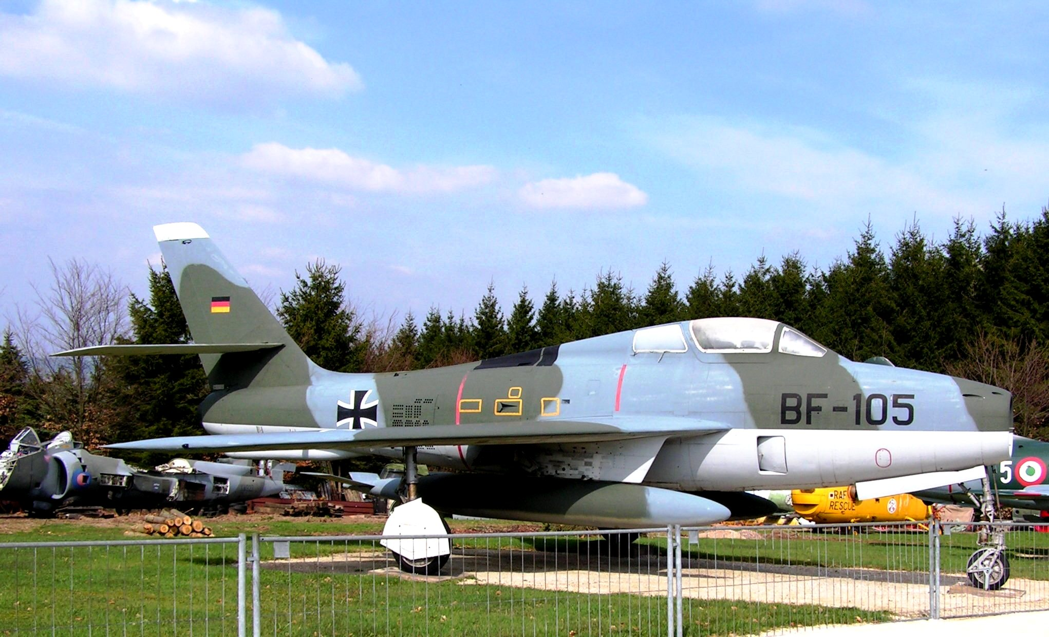 A German Republic F-84F-45-RE Thunderstreak on display at the "Flugausstellung L.+P. Junior" museum at Hermeskeil, Rhineland-Palatinate, Germany. This aircraft was built as USAF serial 52-6778 and transferred to the newly founded West German Luftwaffe. It was assigned to 3rd Squadron/JaBoG 34 (34th Fighter-Bomber Wing), based at Memmingen AB, as "DD-382". Later it was assigned to "Technische Schule der Luftwaffe 1" (TSLw 1), based at Kaufbeuren AB, as "BF-005".